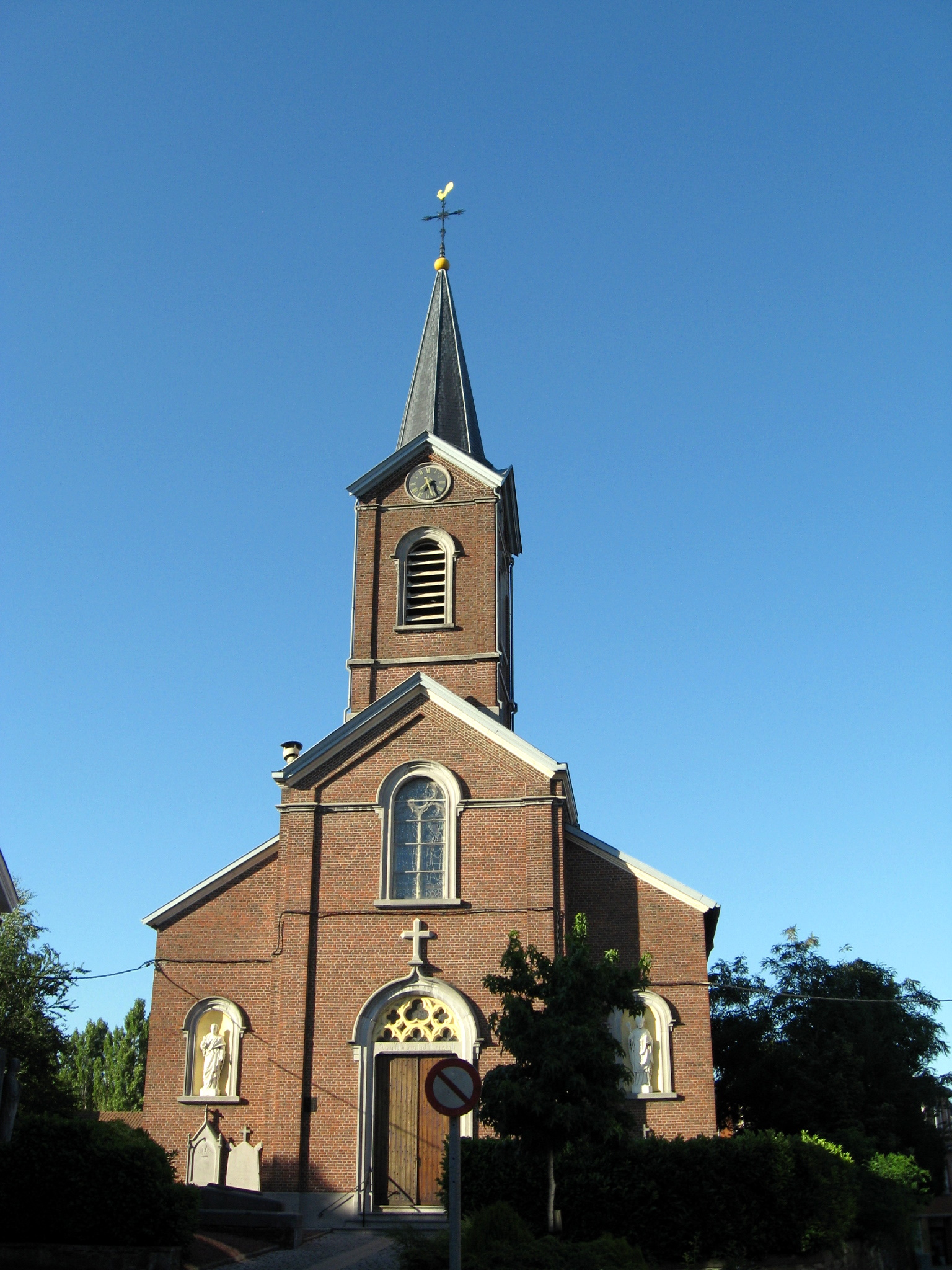 Church of Saint Peter in Vivegnis, Oupeye, Liège, Belgium